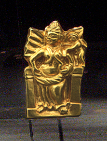 Aphrodite and Eros. Tillia tepe. Guimet Museum. Personal photograph 2006.